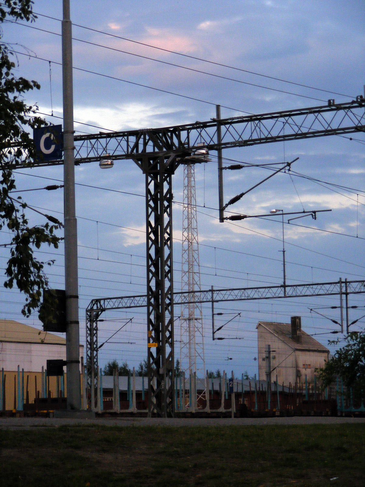 Overhead lines at Ylivieska railway station in Ylivieska, Finland